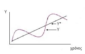 longterm vs short-term GDP (time axis in Greek)